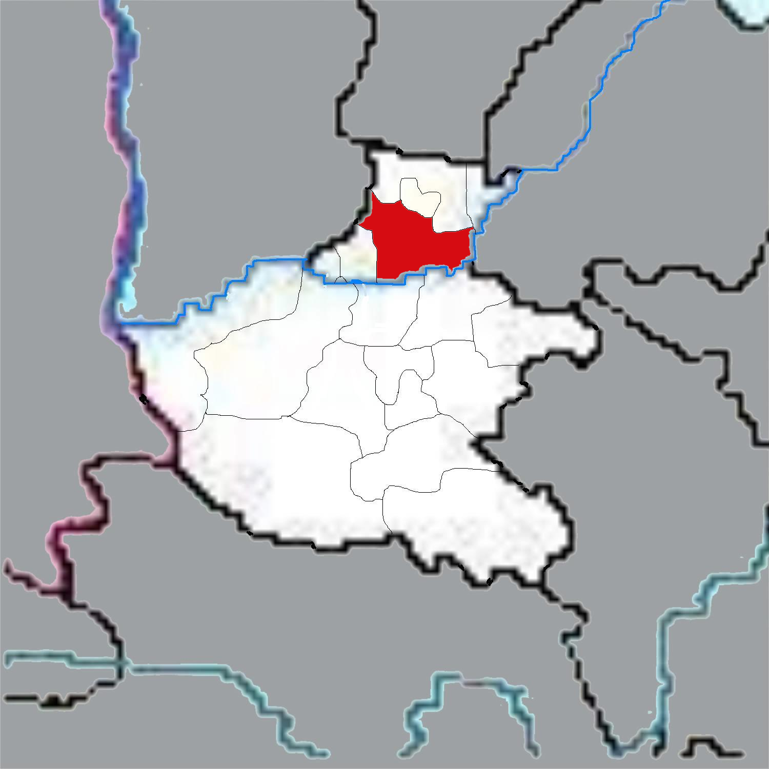 Maps of Henan Province of China